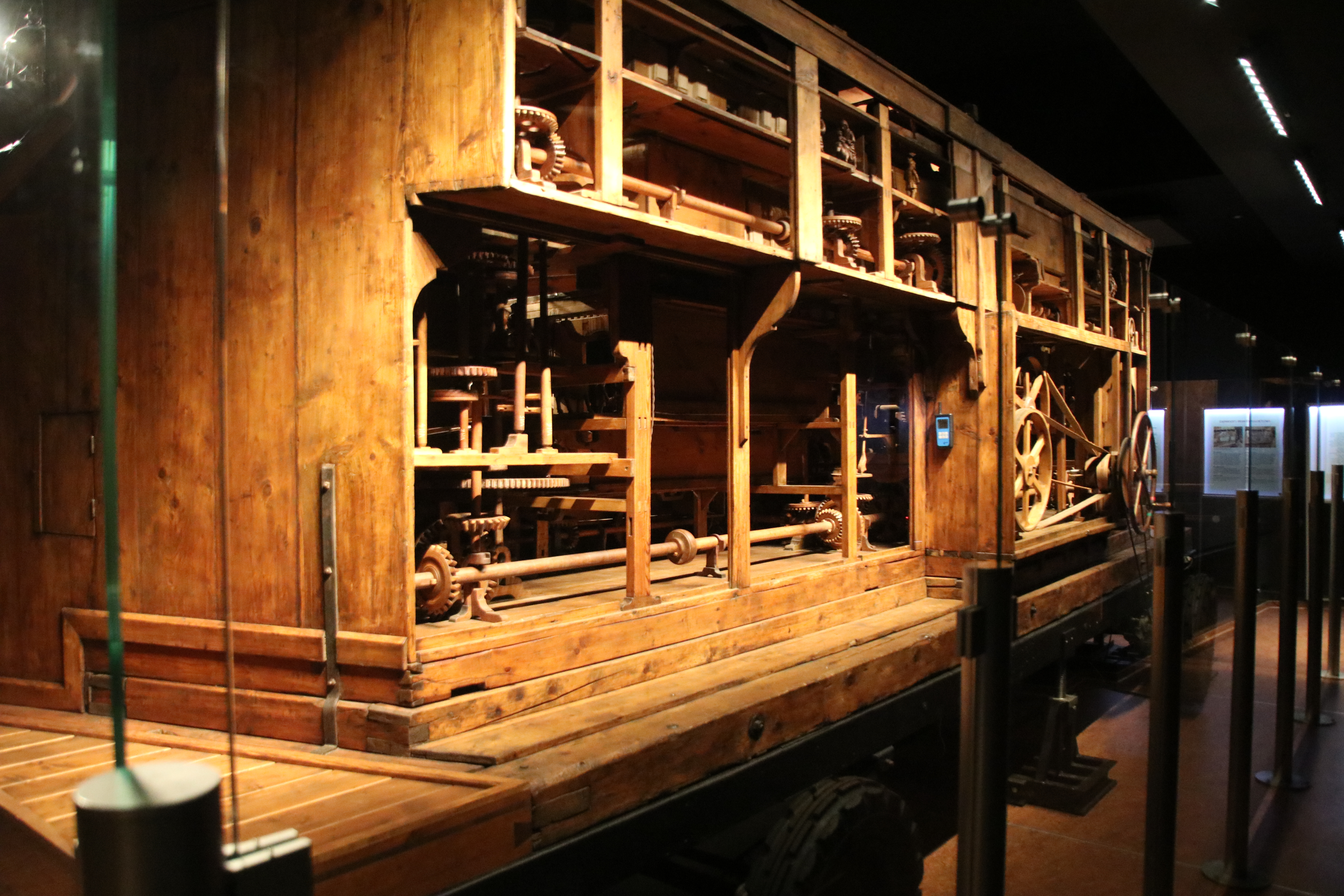 Mechanical nativity scene. Bethlehem of Třebechovice (Probošt's Christmas crib). Mechanics in the back.